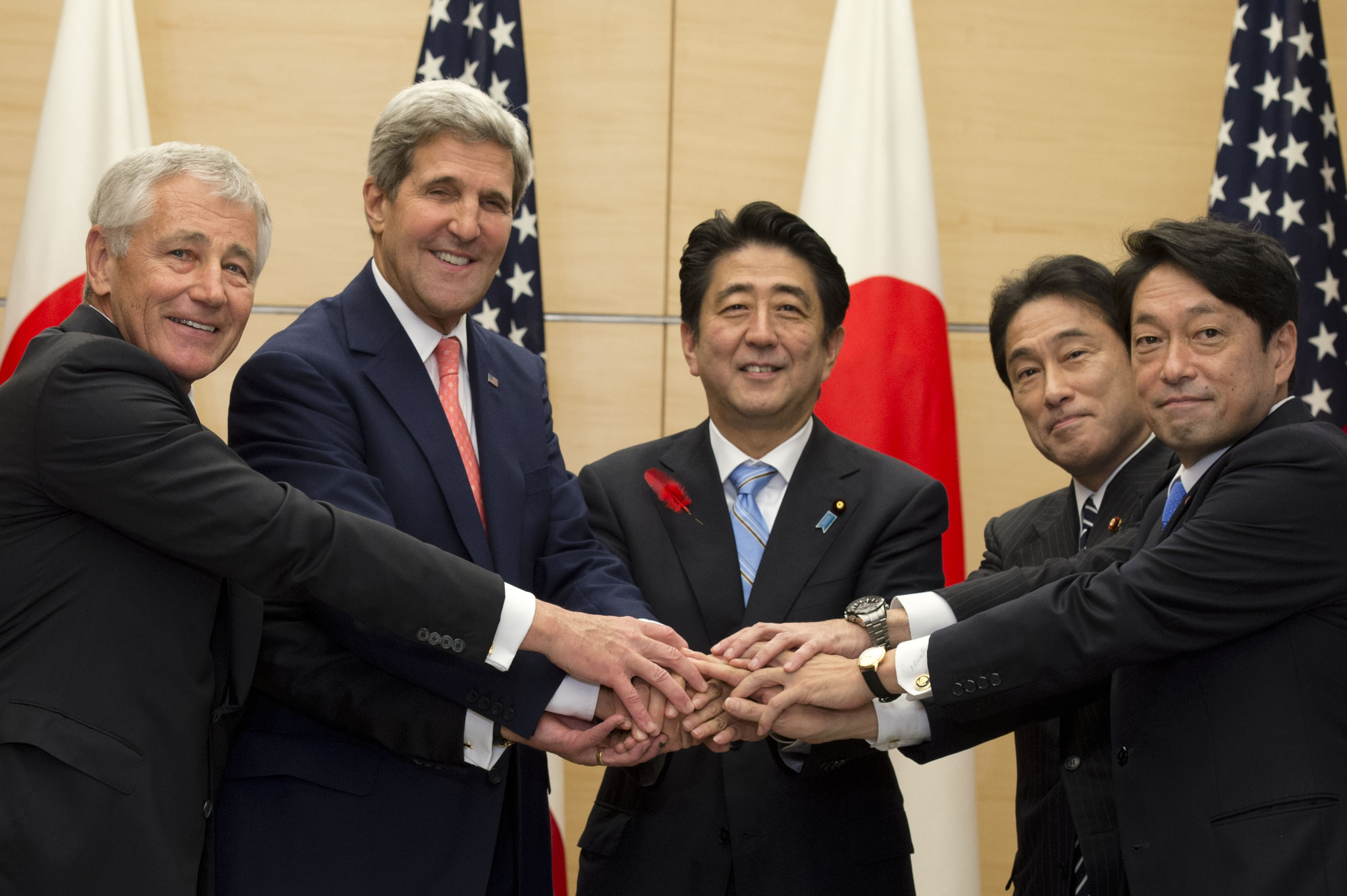 From left, U.S. Secretary of Defense Chuck Hagel, U.S. Secretary of State John Kerry, Japanese Prime Minister Shinzō Abe, Japanese Minister of Foreign Affairs Fumio Kishida and Minister of Defense Tsunori Onodera shake hands at the beginning of a meeting at Abe's residence in Tokyo Oct. 3, 2013.